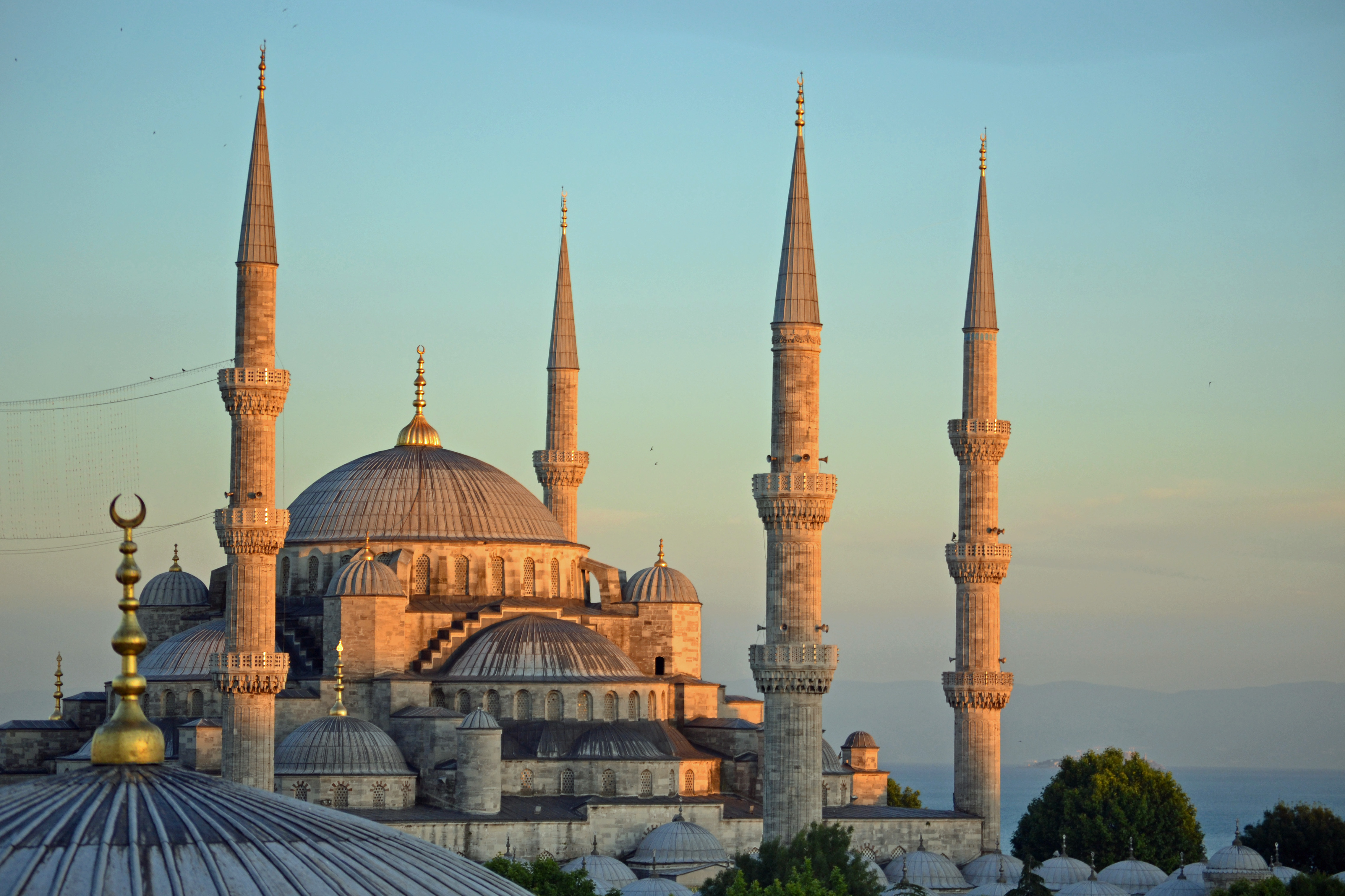 View of Blue Mosque at sunset